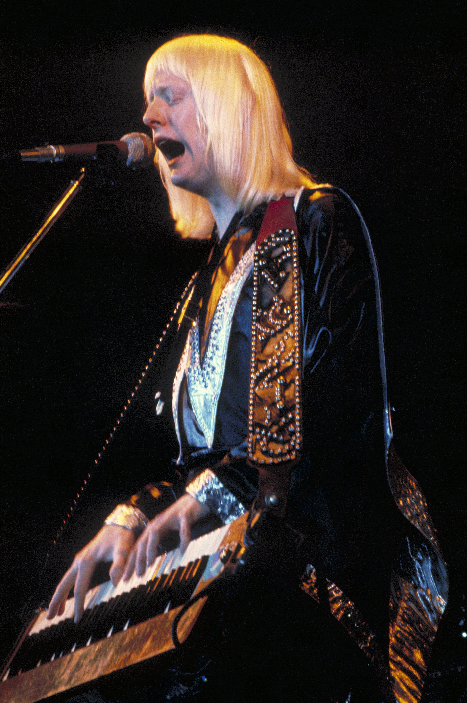 Edgar Winter, American rock'n'rolll musician